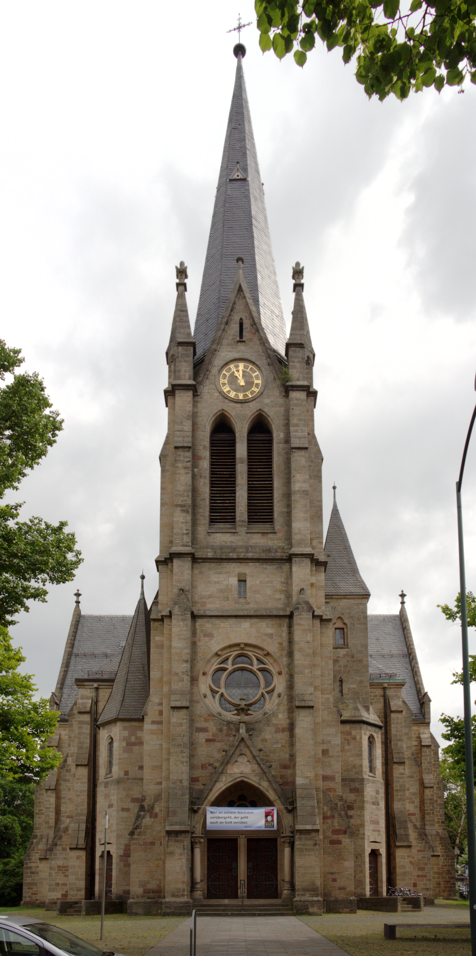 "Christuskirche" Church in Fulda, Fulda, Hesse, Germany